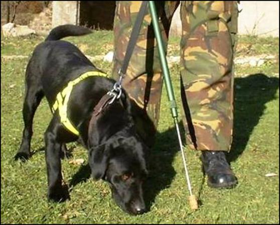 Conducts area/route searches, can search a safe track to conduct casualty extraction/rescue in an area where mines are suspected.